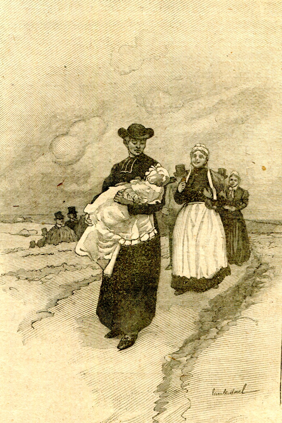 Illustration for G. de Maupassant's story "The Baptism" (from the collection "Miss Harriet")